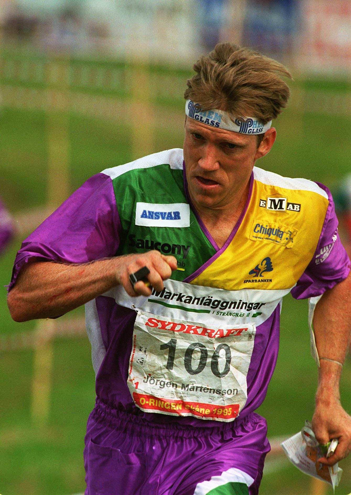 Jörgen Mårtensson at O-Ringen 1995